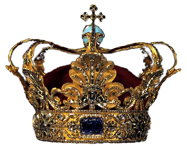 Crown of Christian V (1671) kept at Rosenborg Castle, Copenhagen